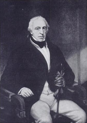 Hugh Elliot (1752–1830)